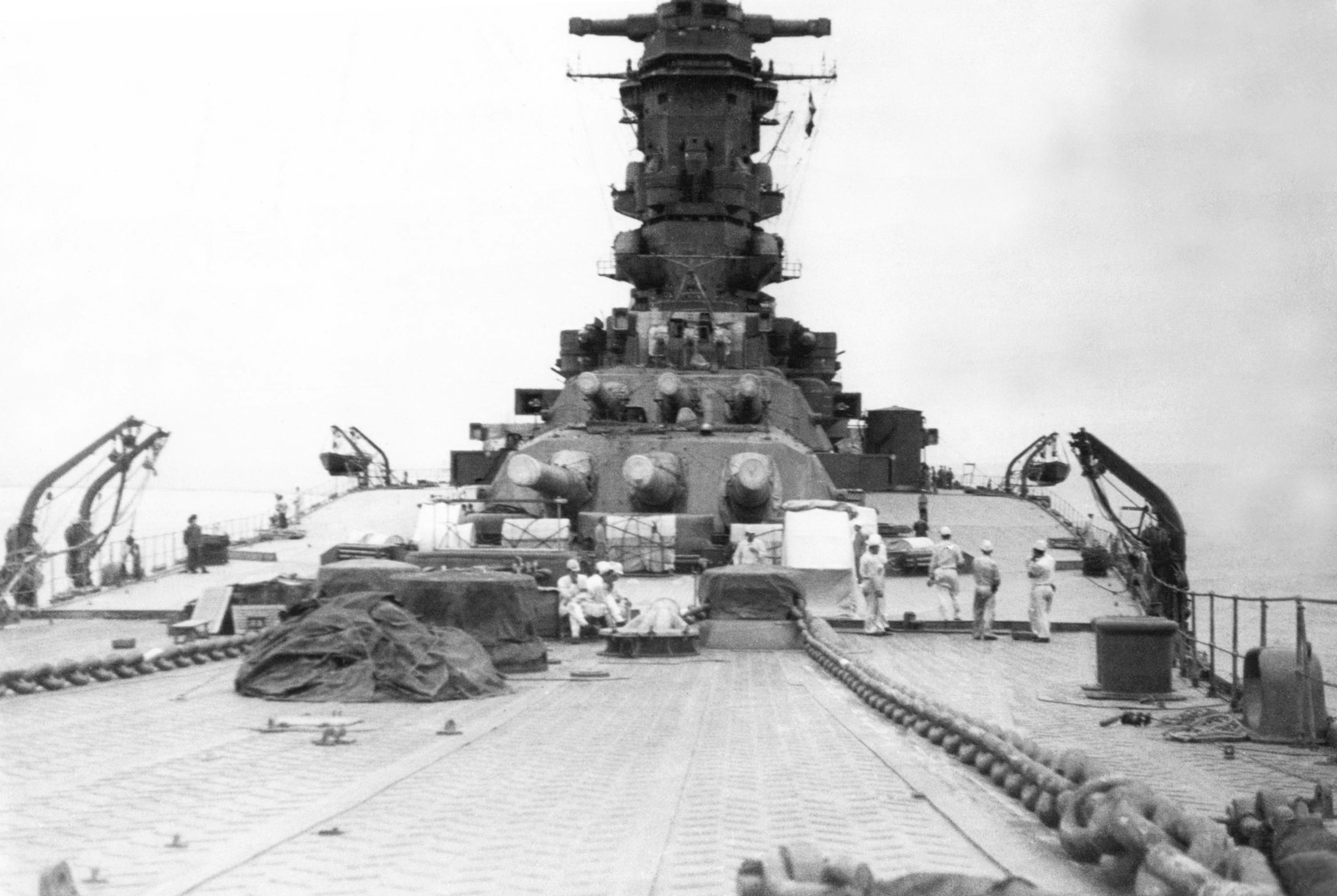 Japanese Battleship Musashi taken from the bow (August 1942): Its Post-Treaty Battleship. Leadship Yamato laid down on 4 November 1937, and Musashi laid down on 29 March 1938. Displacement is 69,000 tons, main guns are 9 × 460 mm.